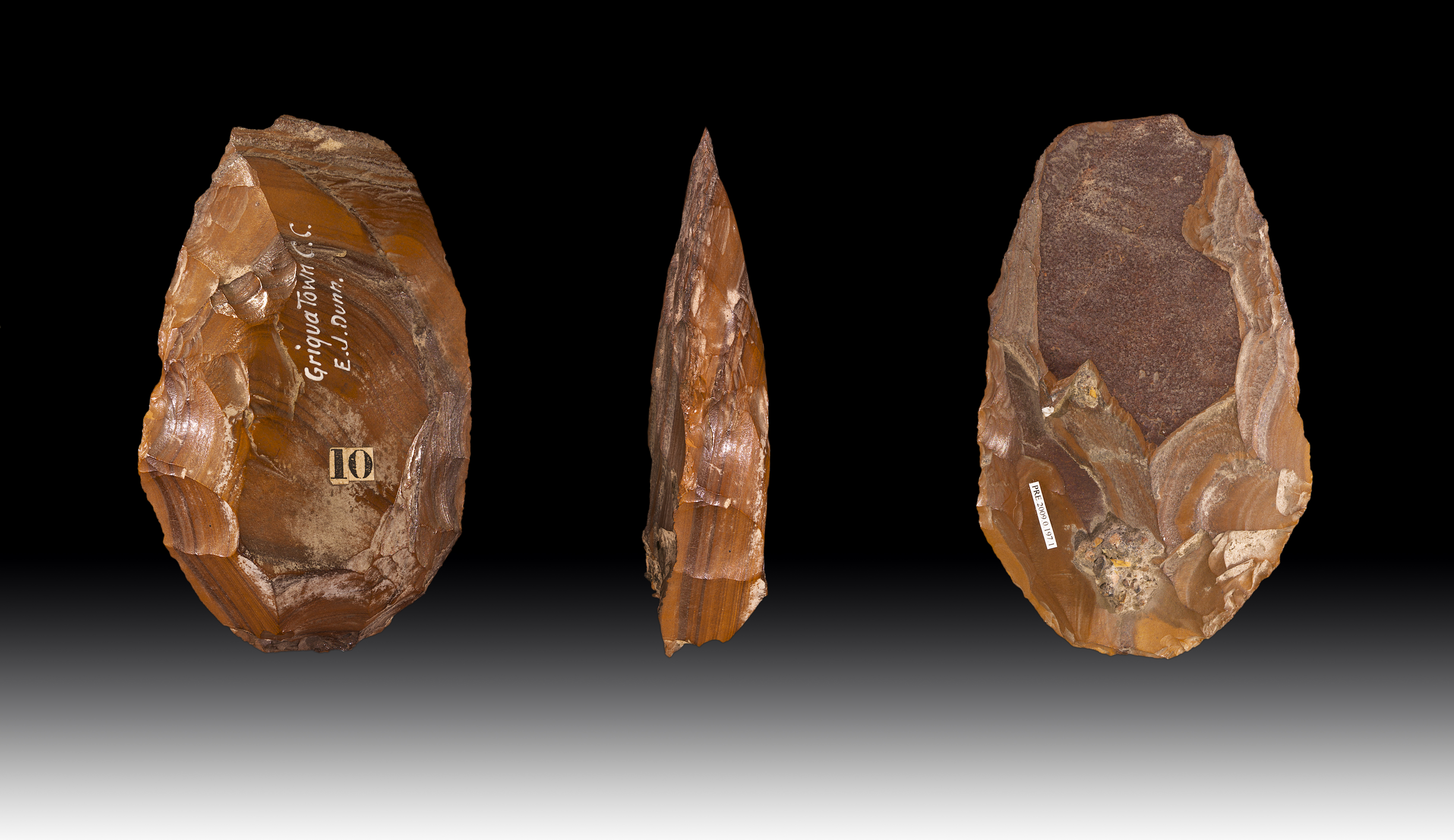 Flint Cleaver Stage : between 300000 and 1000000 BP (Lower Palaeolithic) Locality : Griquatown, Northern Cape Province, South Africa. Former collection of Edward John Dunn (1844 - 1937). Size : 130 × 85 × 33 mm